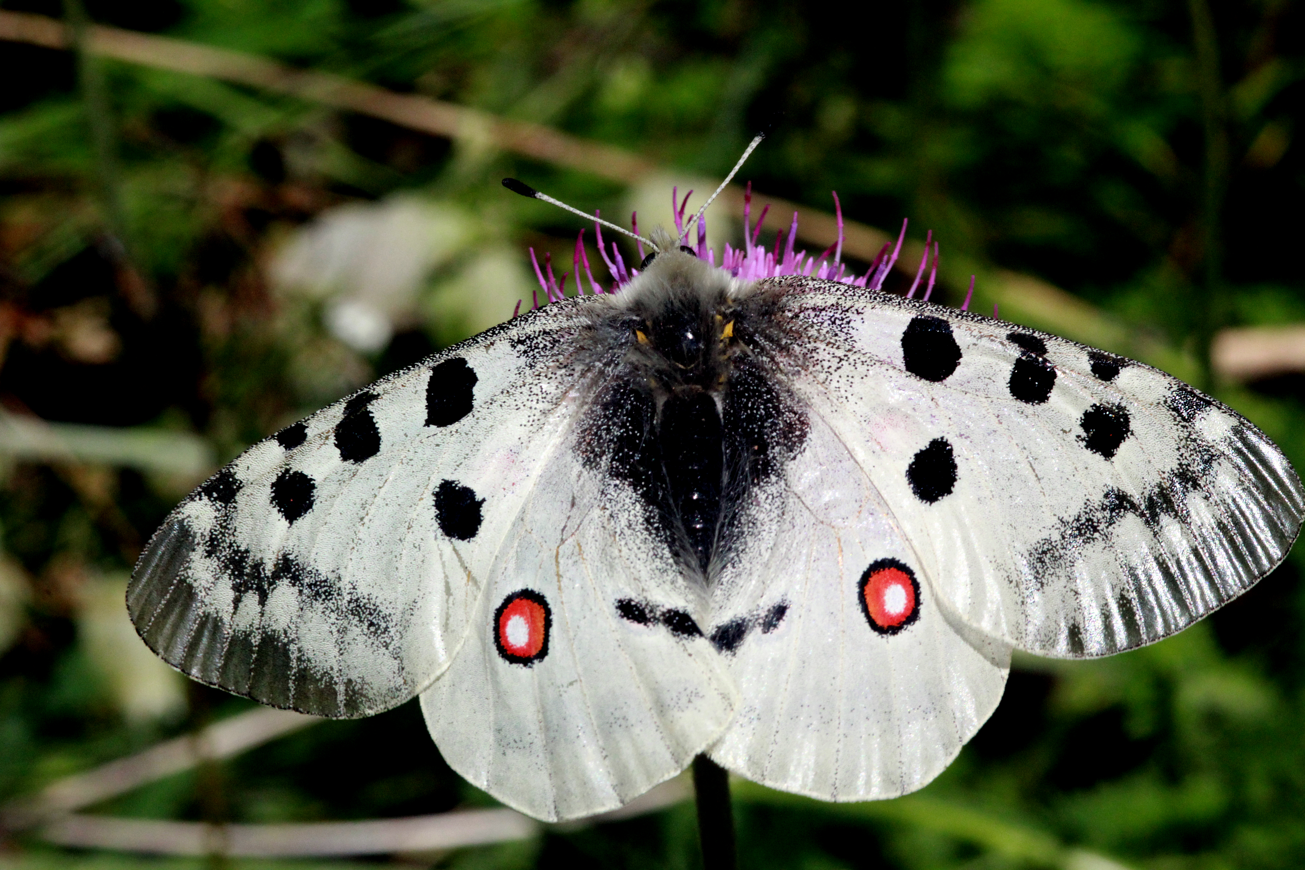 Apollo